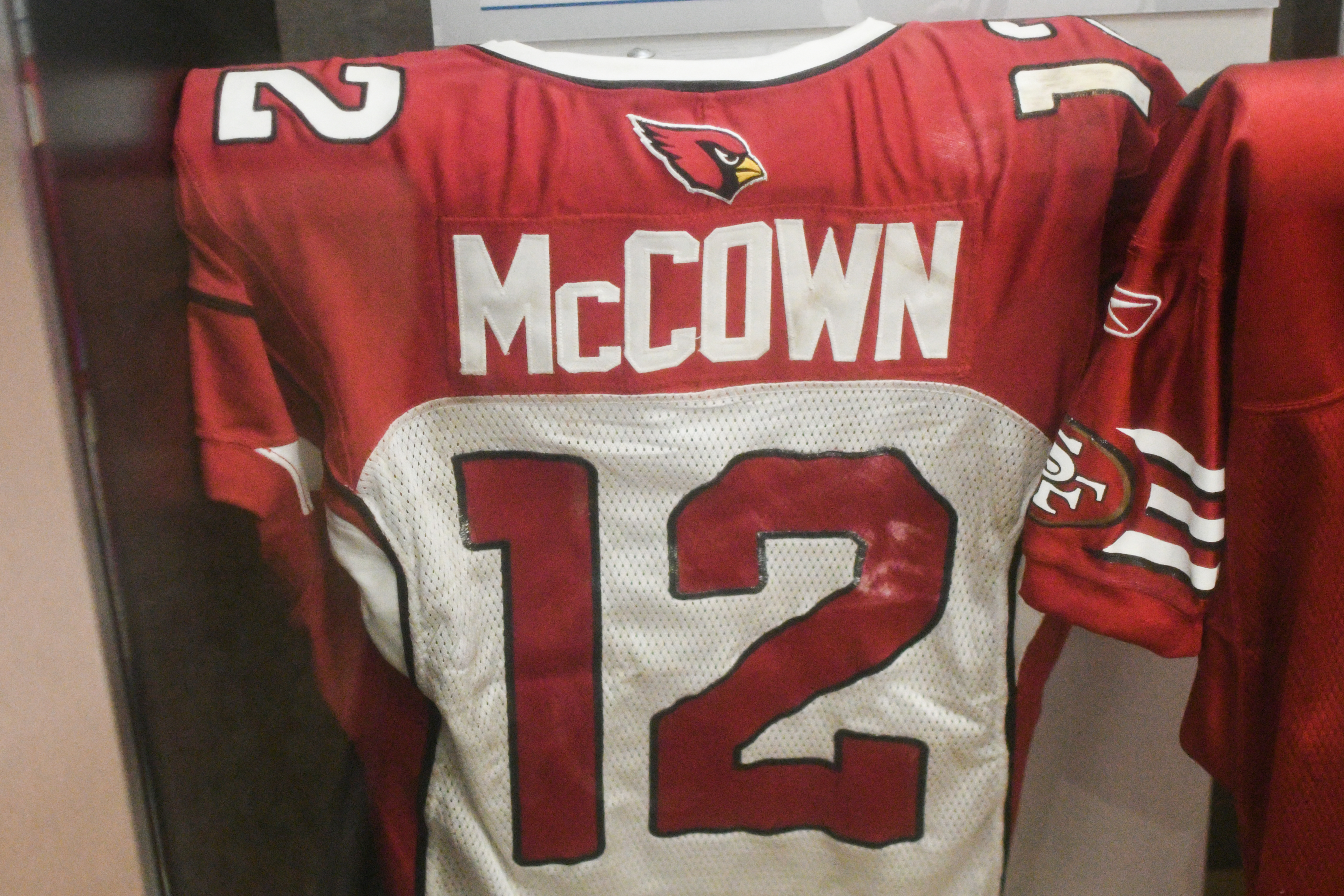 Josh McCown's #12 jersey (Cardinals) at the Pro Football Hall of Fame